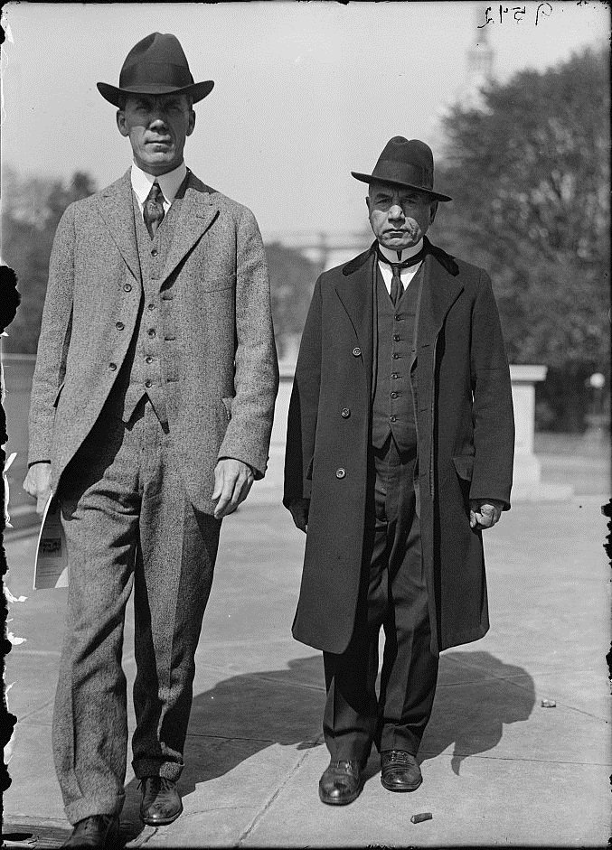 Garabed T. K. Giragossian, shorter man, and Robert Crosser, taller man, seen in Washington, D.C.. Giragossian was an Armenian living in Boston who developed a perpetual motion device. Crosser was a congressman from Ohio. Harris-Ewing seems to have reversed identifications.